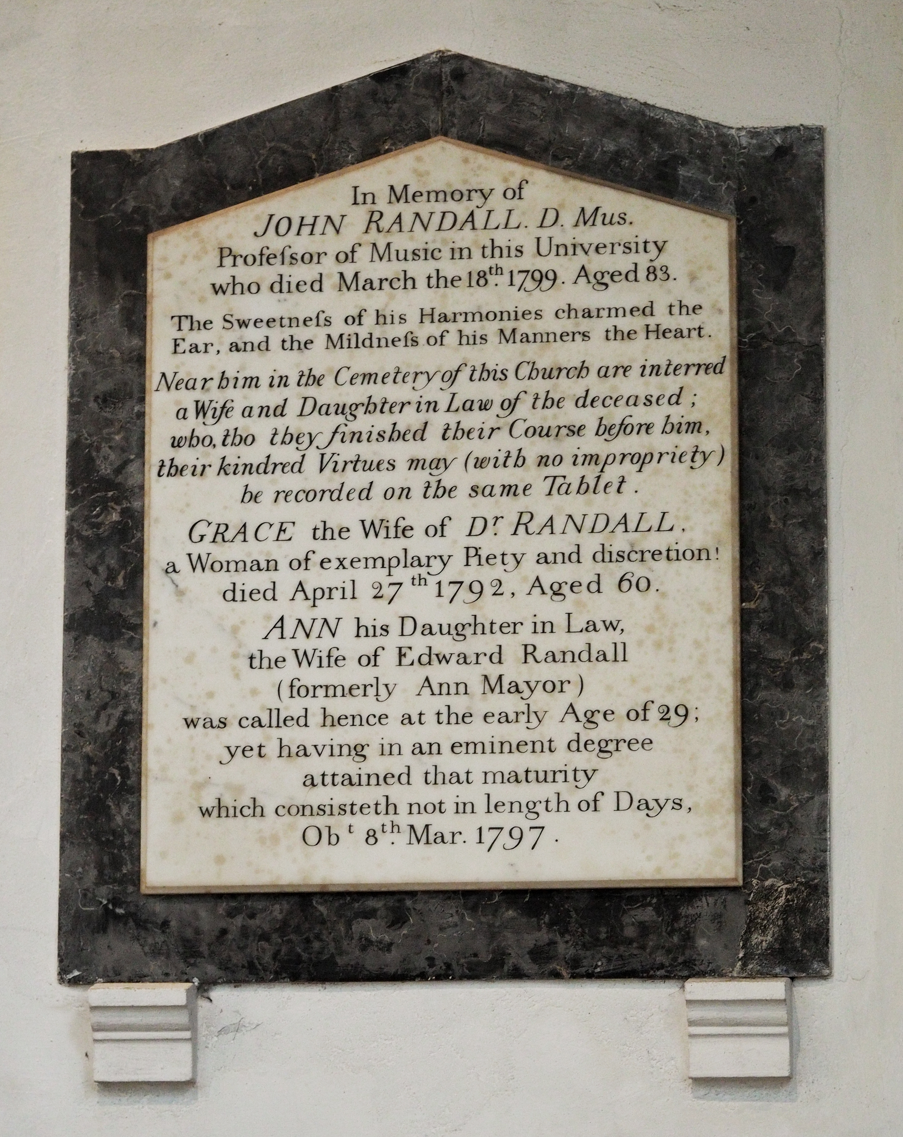 Memorial to John Randall (1715–1799) an English organist and academic, in St Bene't's Church, Cambridge